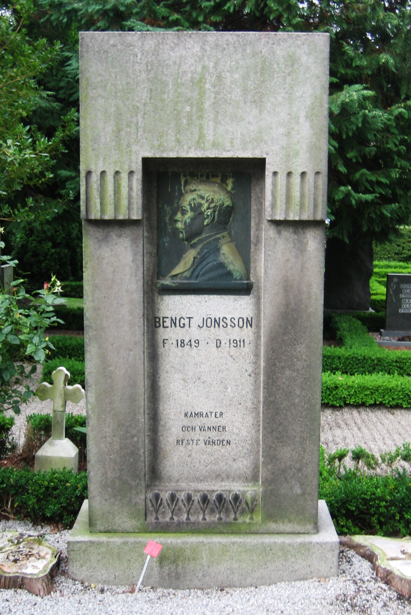 Grave of swedish professor Bengt Jönsson (1849-1911). Photo taken at klosterkyrkogården in Lund, Sweden, 080828 by the uploader.